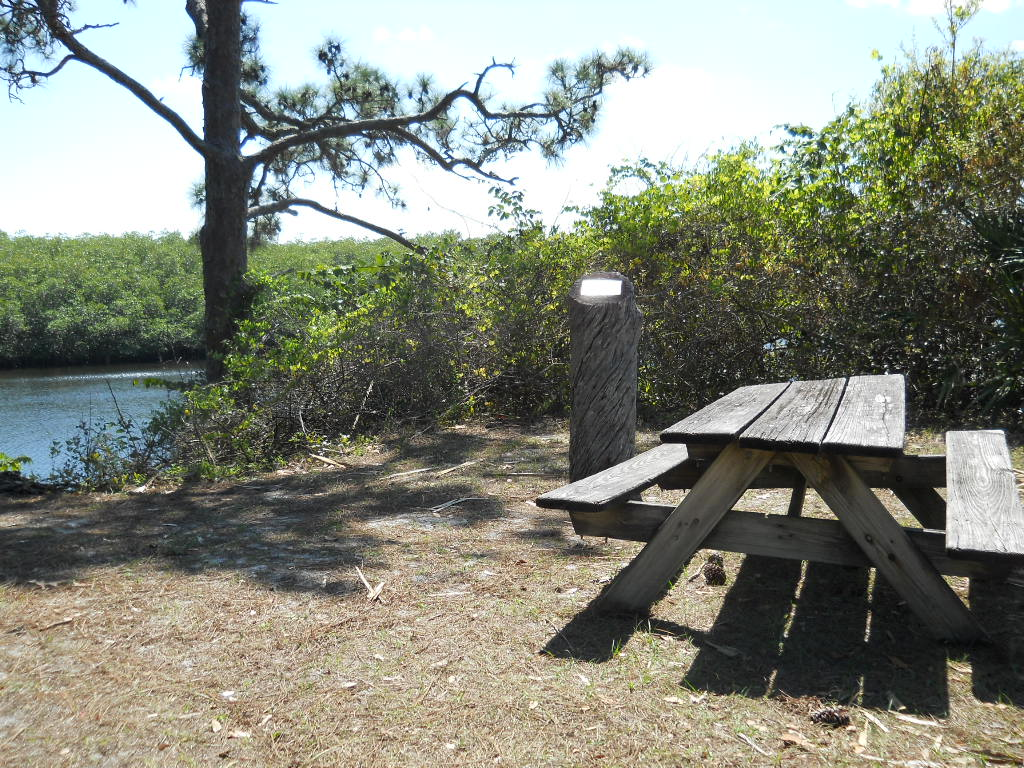 Jonathan Dickinson State Park: Between swimming area and boating area on Loxahatechee River NW Fork: Picnic site with Tree stump plaque on Battle of the Loxahatchee River on January 24, 1838